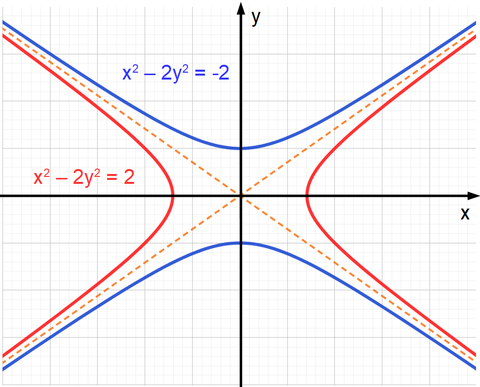 Conjugated hyperbolas sharing a set of asymptotes